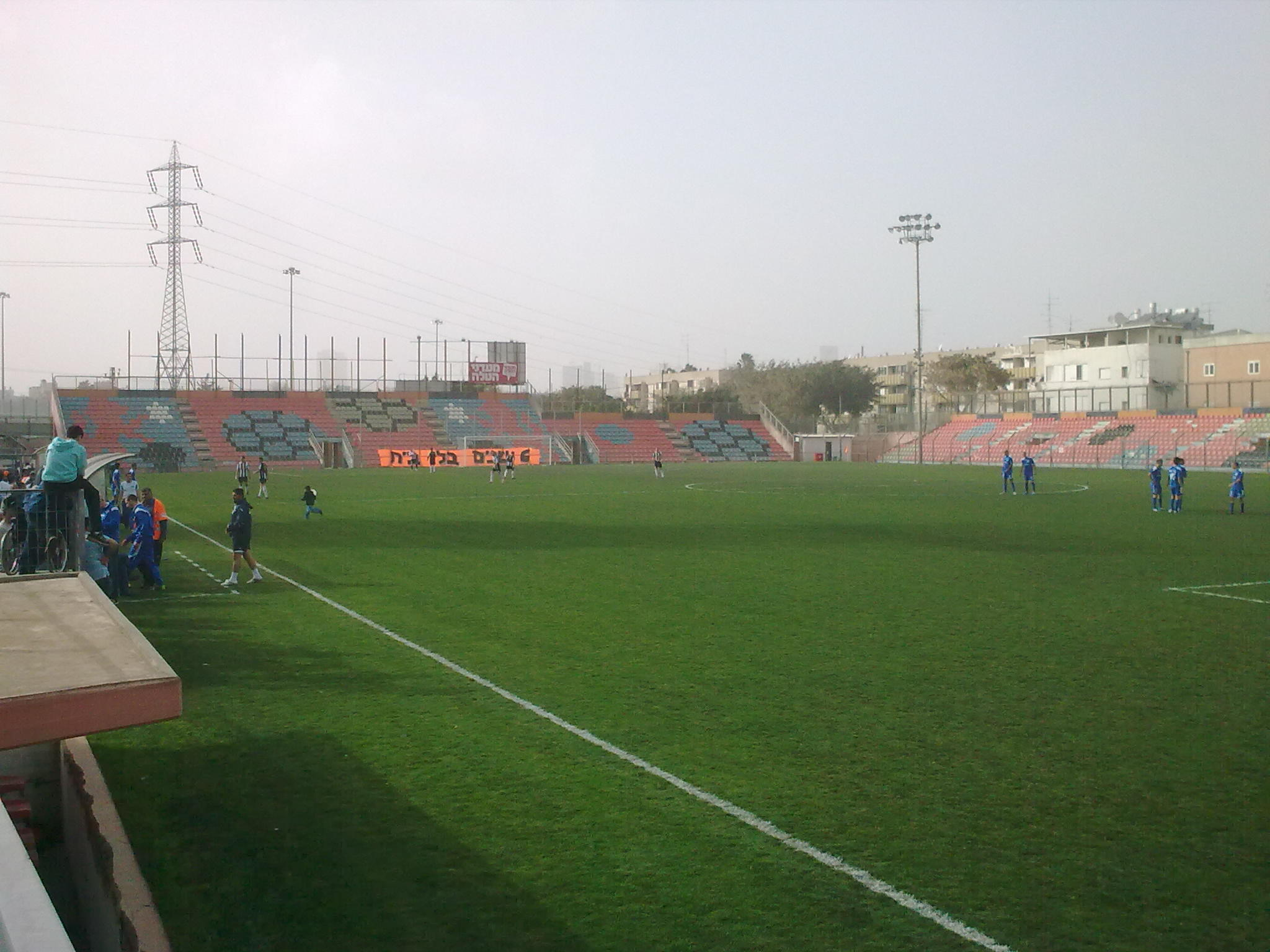 Hatikva Neighborhood Stadium